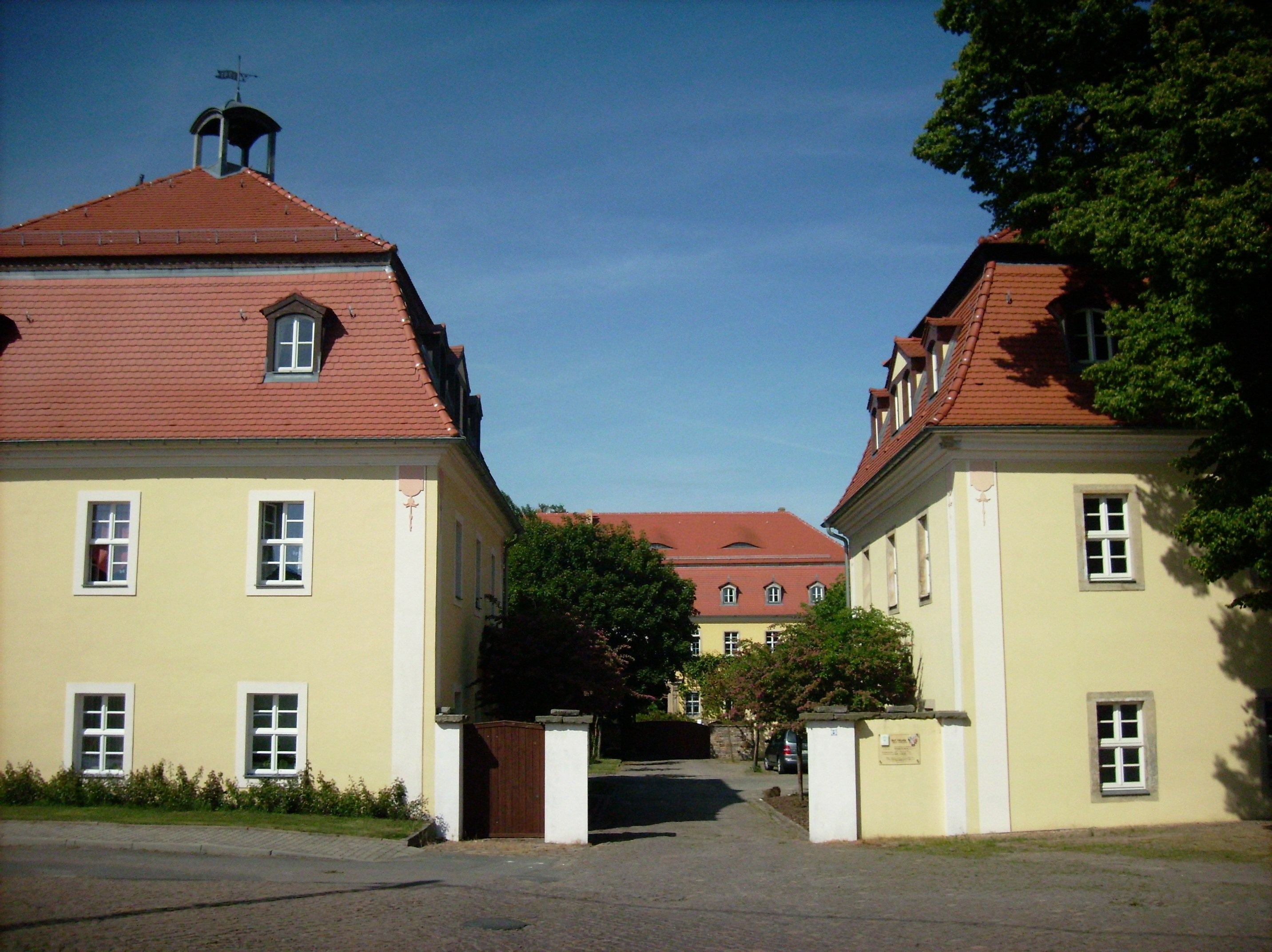 Entrance to Heyda Castle (Lossatal, Leipzig district, Saxony)